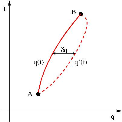 Variation of position in Lagrangian mechanics